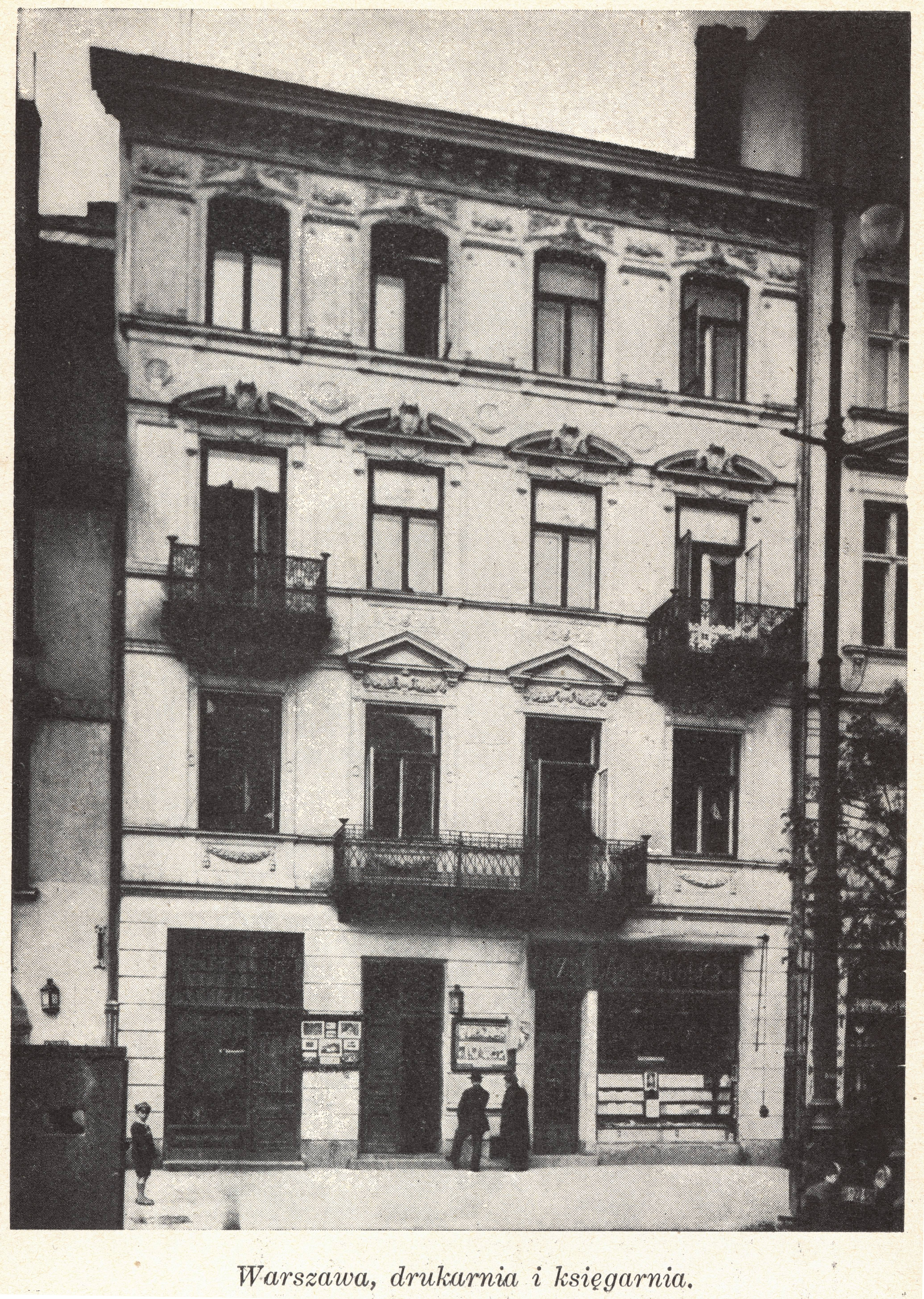 Pallottine Publishing House (Wydawnictwo Księży Pallotynów) on 71 Krakowskie Przedmieście street Warsaw, Poland before II World War.